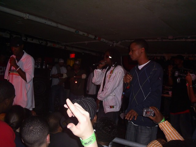 O.G.C. in concert.